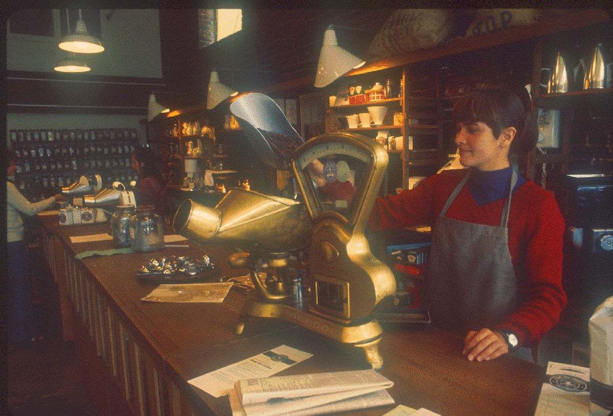 Seattle Municipal Archive describes this as "Original Starbucks store in Pike Place Market, 1977". That's a bit dubious: The original Starbucks was at 2000 Western Avenue, just north of the market; it was relocated in 1976 to 1912 Pike Place, where it remains as of 2009. So it would seem that either this picture is slightly older than the Municipal Archive thinks, or it is not the original store.